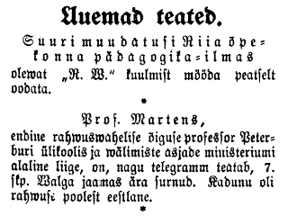 Friedrich Martens Death Notice (in Estonian using the writing style adopted from the German style) The announcement roughly reads: Prof. Martens, the former professor of international law in the university of Sankt-Peterburg and the permanent member of the ministry of external affairs, has, as the telegram reports, [on the date of (?)] 7th died at the Valga station. The deceased was Estonian by nationality.